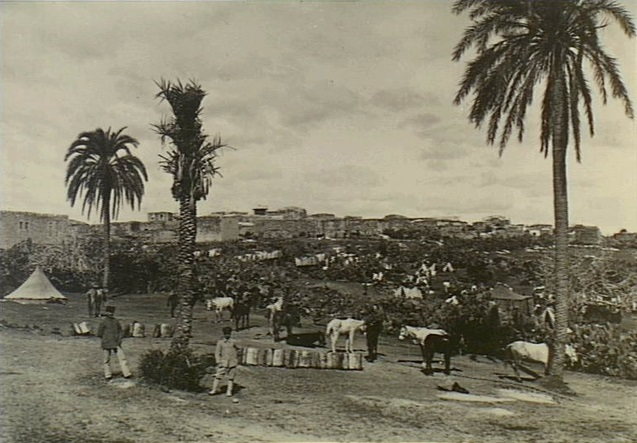 Photograph taken about 1915 of Turkish troops at Tulkarm